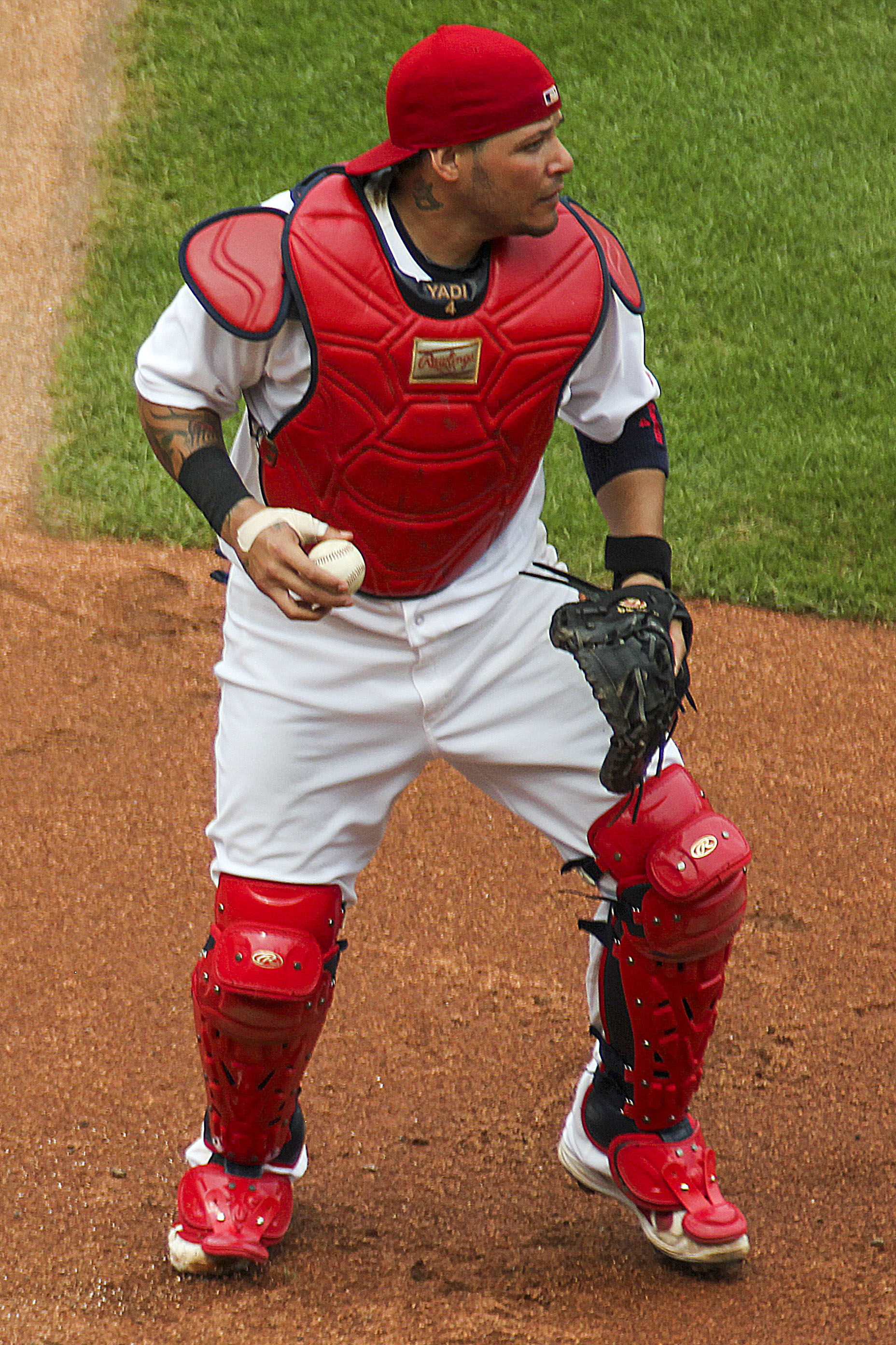 Yadier Molina st.louis Cardinals 2014